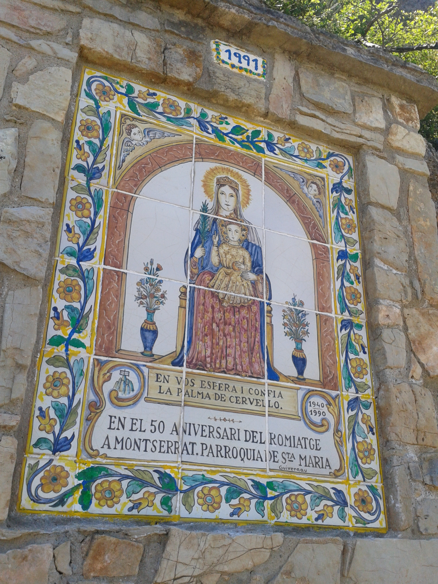 Decorated tiles in Camí dels Degotalls, Montserrat mountain, Catalonia